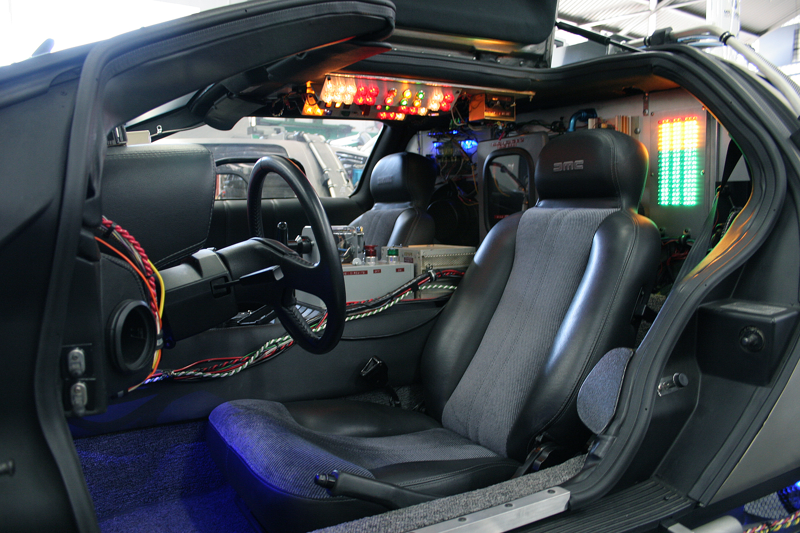 DMC Deloran "Back to the Future" Time Machine